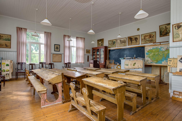 Smedsta skola skolsalen